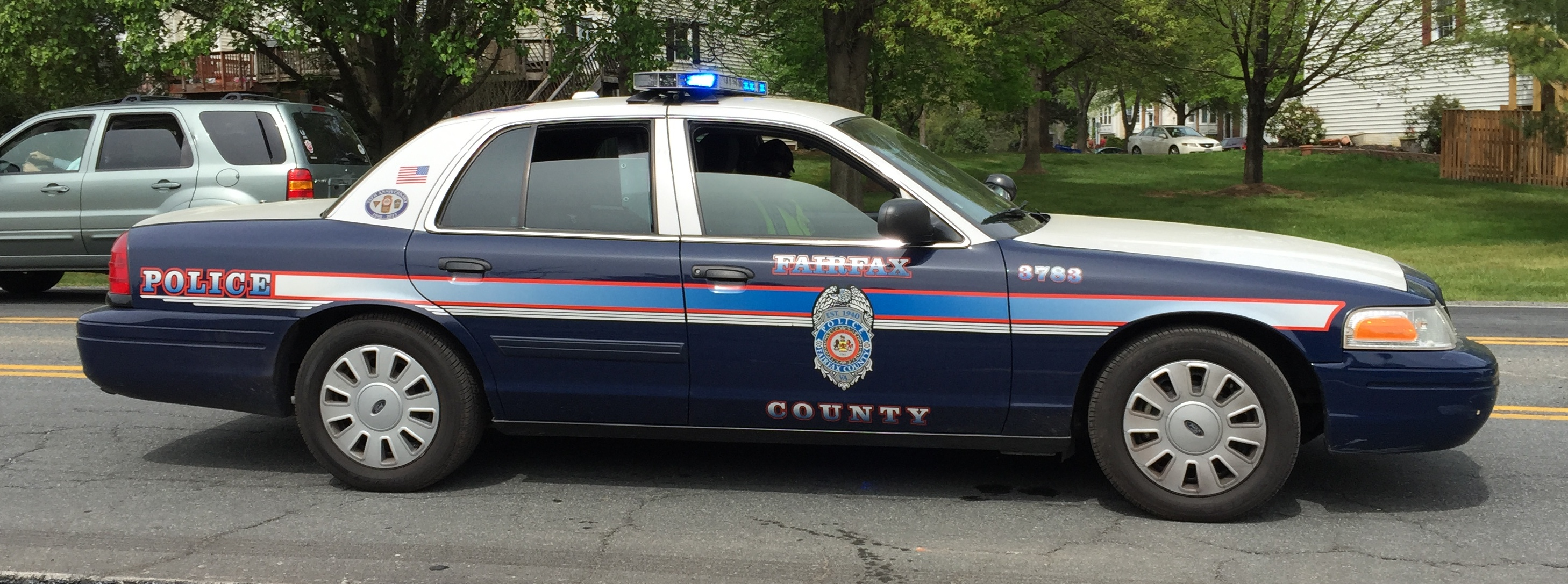 Fairfax County Police Department cruiser on Franklin Farm Road in the Franklin Farm section of Oak Hill, Fairfax County, Virginia during road construction